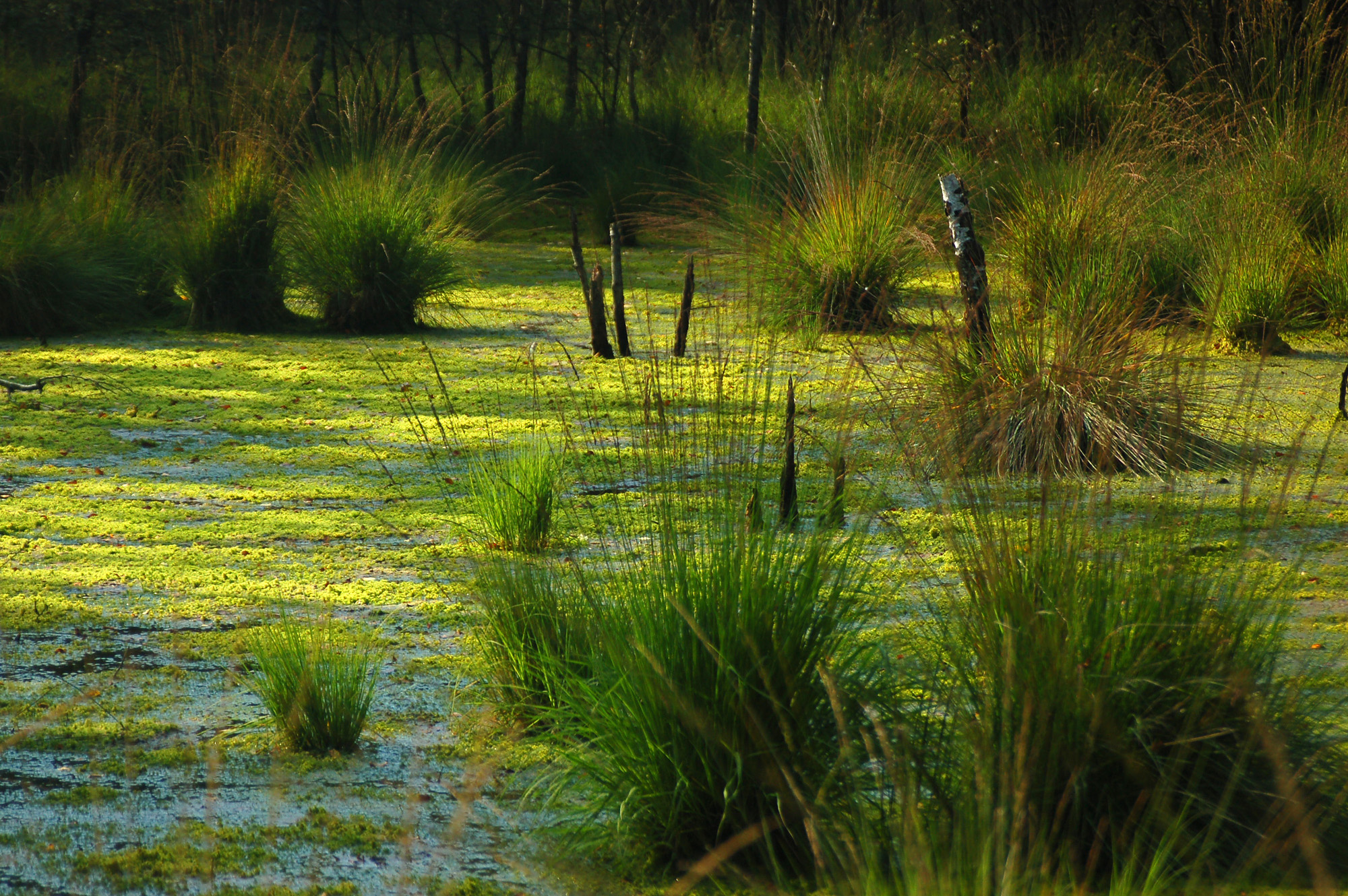 Lütt-Witt Moor, Henstedt-Ulzburg, Germany.